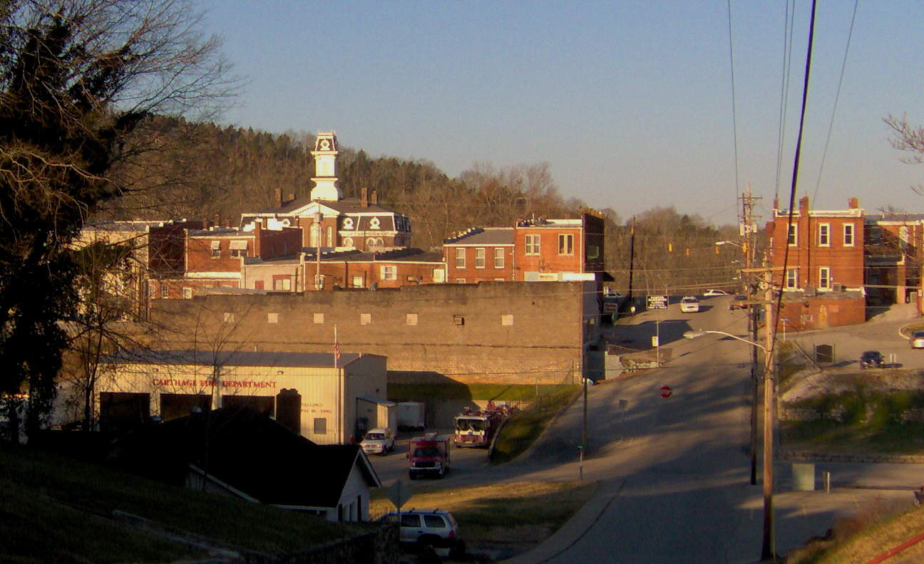 Carthage, Tennessee, in the southeastern United States. The courthouse square is on the left side of the picture. The view is looking west from a hill near Smith County High School.